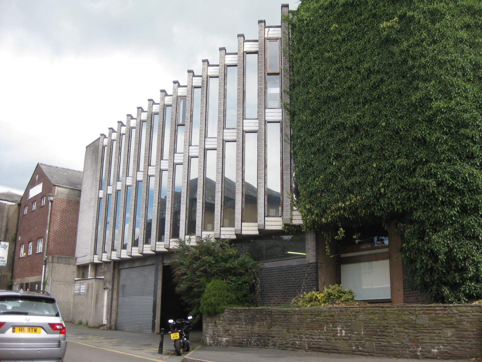 Brecon County Library, Ship Street, Brecon.